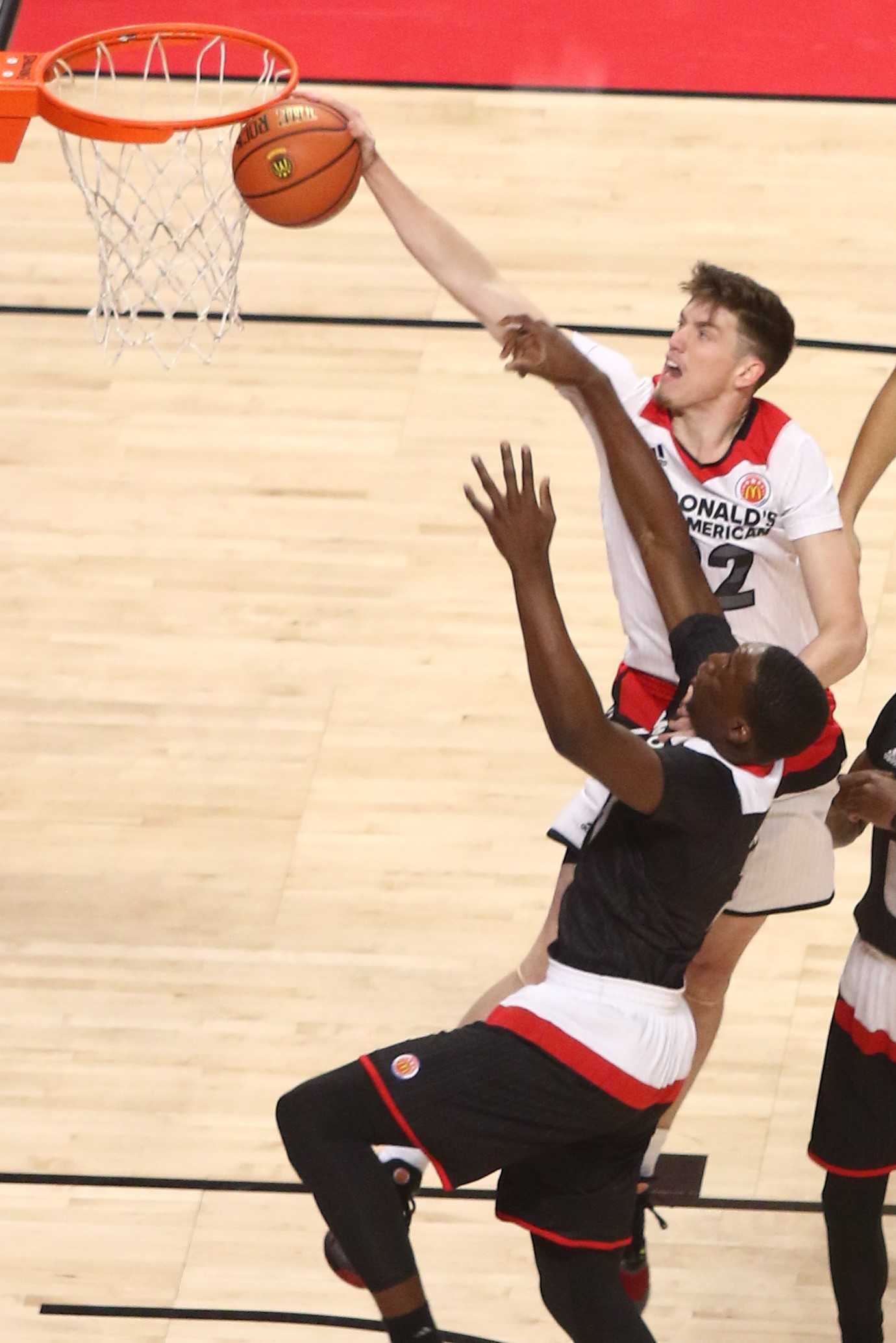 T. J. Leaf at the rim against Bam Adebayo at the w:2016 McDonald's All-American Boys Game